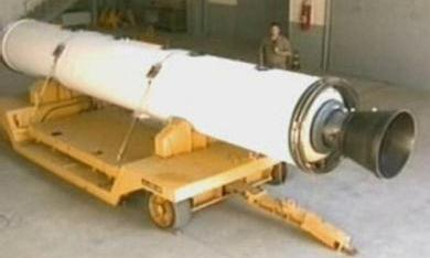 VLS motor